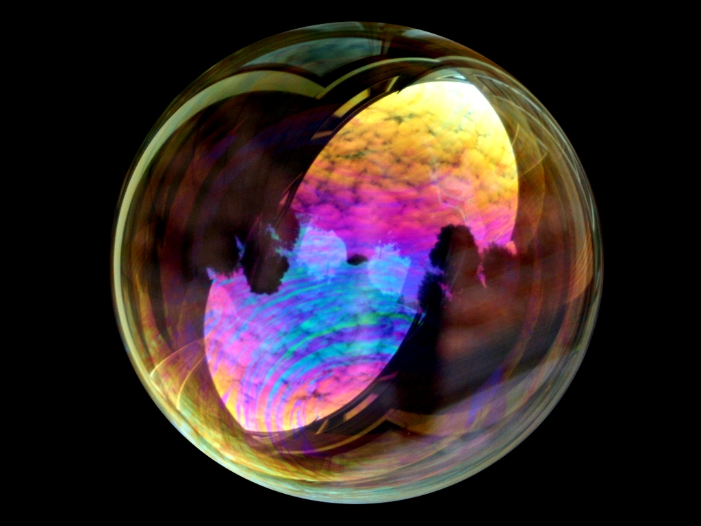 Soap bubble reflects the sky